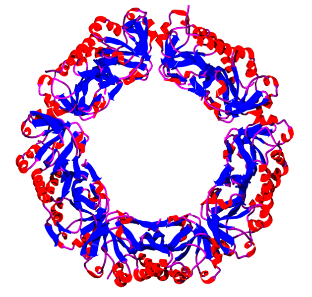 Structure of AhpC, a bacterial peroxiredoxin. Created from PDB 1YEX